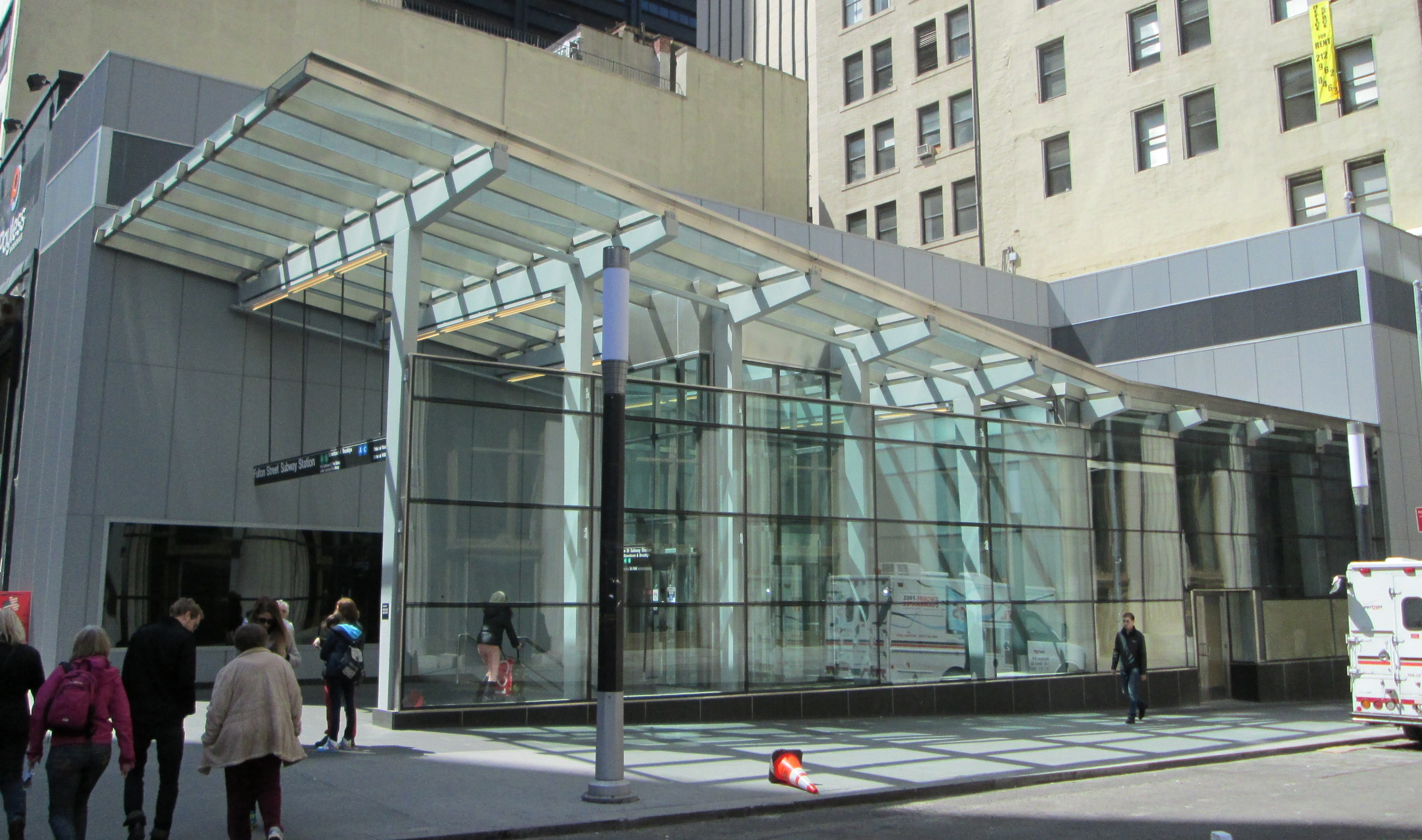 The Dey Street entrance to the Fulton Street subway station opened in 2012, part of the MTA's Fulton Center project.